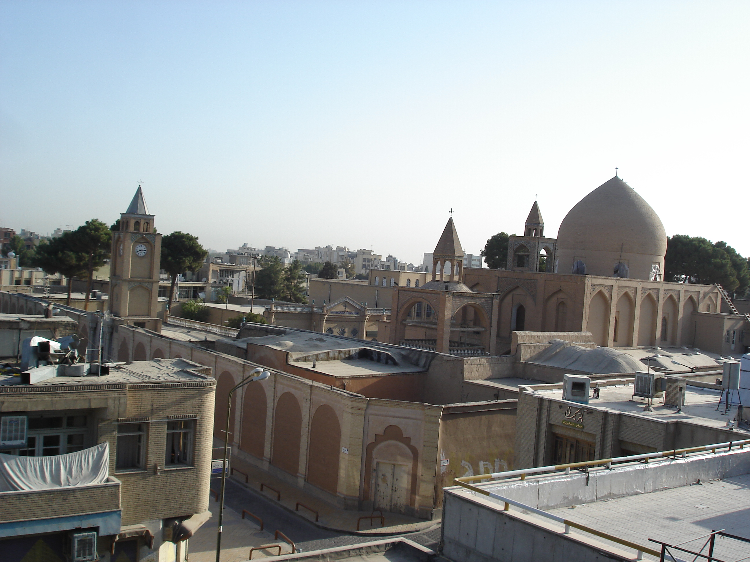 View over Julfa, Esfahan's Armenian Quarter. Visible on the right is the 17th century Armenian Cathedral of the Holy Savior (also known as Vank Cathedral).